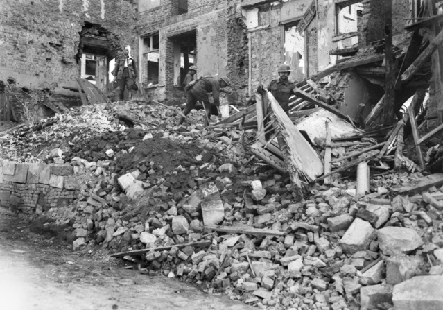 Australian pioneers clearing mines from destroyed houses in Peronne, September 1918